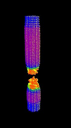 Peridynamics neck